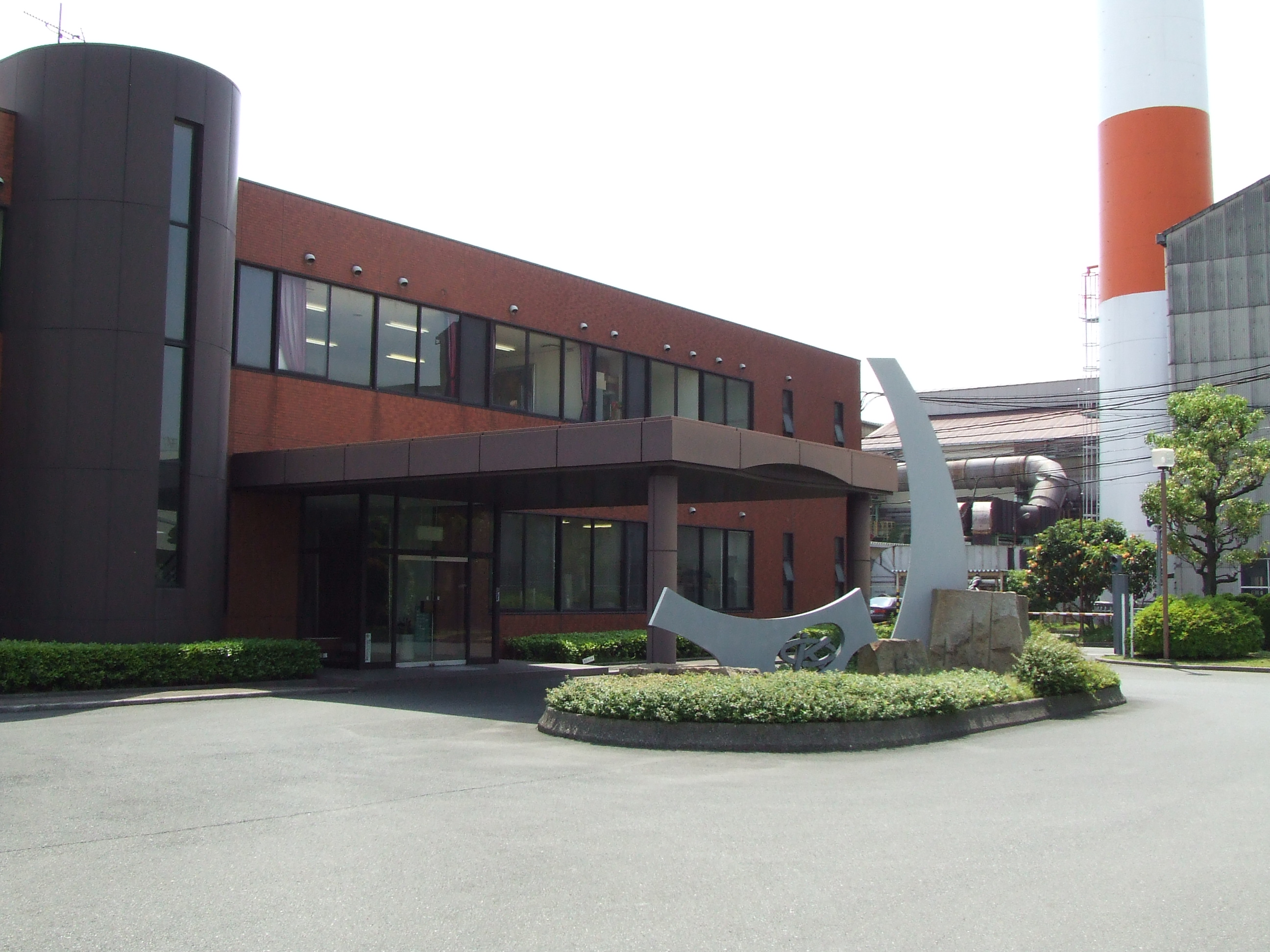 Chubu Steel Plate Co., Ltd. Japan, Aichi, Nagoya-shi, Nakagawa-ku, Kousudouri 5-1. I photograph it in front of the company front gate.